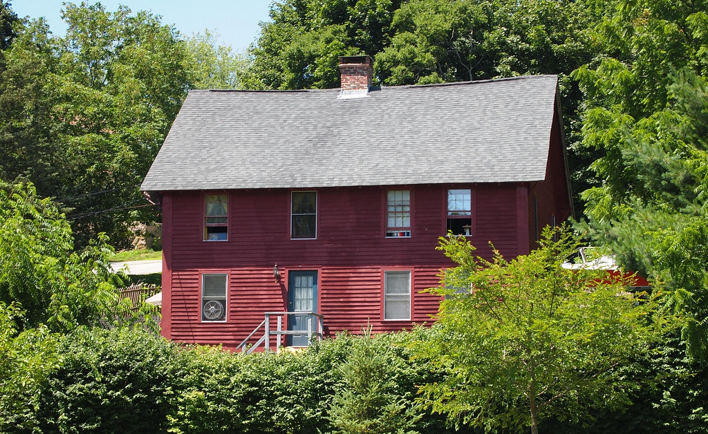 Connecticut - New London County - Waterford NRHP #02000337 NRIS 2011 Jun 30 at Old Norwich and Old Colchester Rds, view SW edit: crop, resize Built 1824 (Colonial style). Private residence.